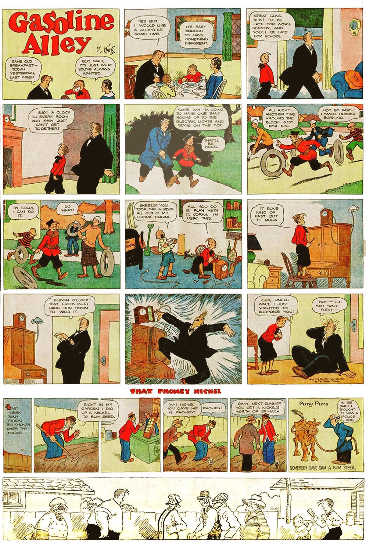 Copy of the newspaper comics Gasoline Alley and That Phoney Nickel from 1933 Renewal searches were done in both periodicals and artwork for the years 1960 and 1961. The Chicago Tribune did not renew its newspaper issues for that timeframe. No listings for Gasoline Alley, That Phoney Nickel, Frank King, or Chicago Tribune were located for artwork. There's no evidence that copyright continues to be claimed on the material.